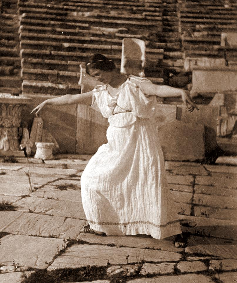 Isadora Duncan at Theatre of Dionysus, Athens